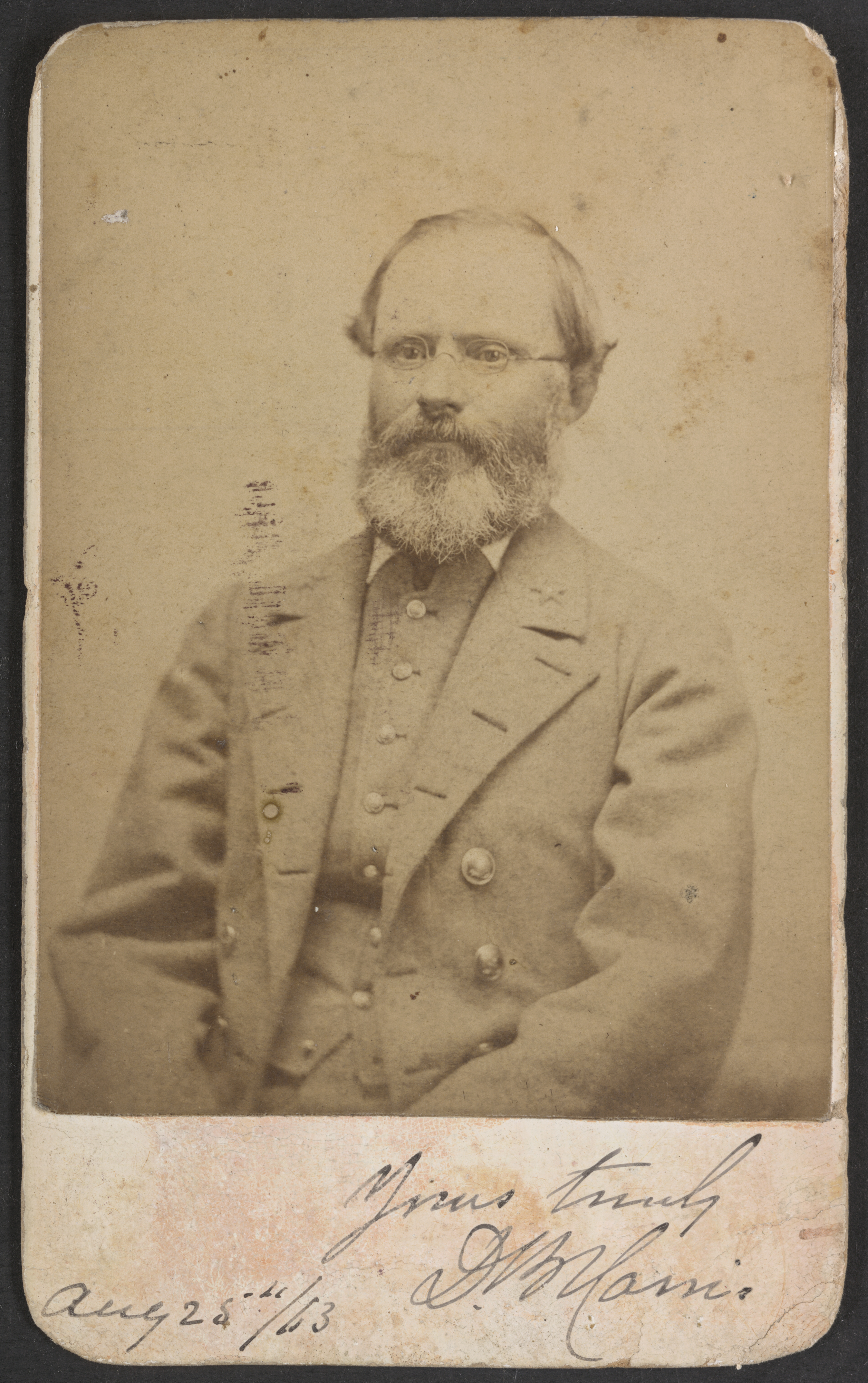 D. B. Harris, C.S.A, Chief Eng. at Charleston, Library of Congress. Note: David Bullock Harris (1814 –1864) was a colonel in the Confederate States Army during the American Civil War